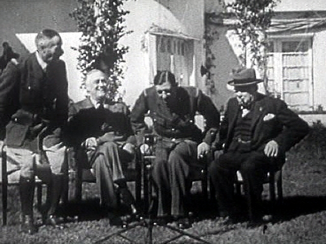 Charles de Gaulle sits down with rival Henri Giraud (left) after shaking hands with him in the presence of Franklin Roosevelt and Winston Churchill at the Casablanca Conference, 14 January 1943.